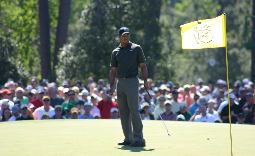 Tiger Woods during a practice round for the 2006 Masters Tournament. טייגר וודס באליפות המאסטרס בארצות הברית בשנת 2006. אליפות בה לא זכה.